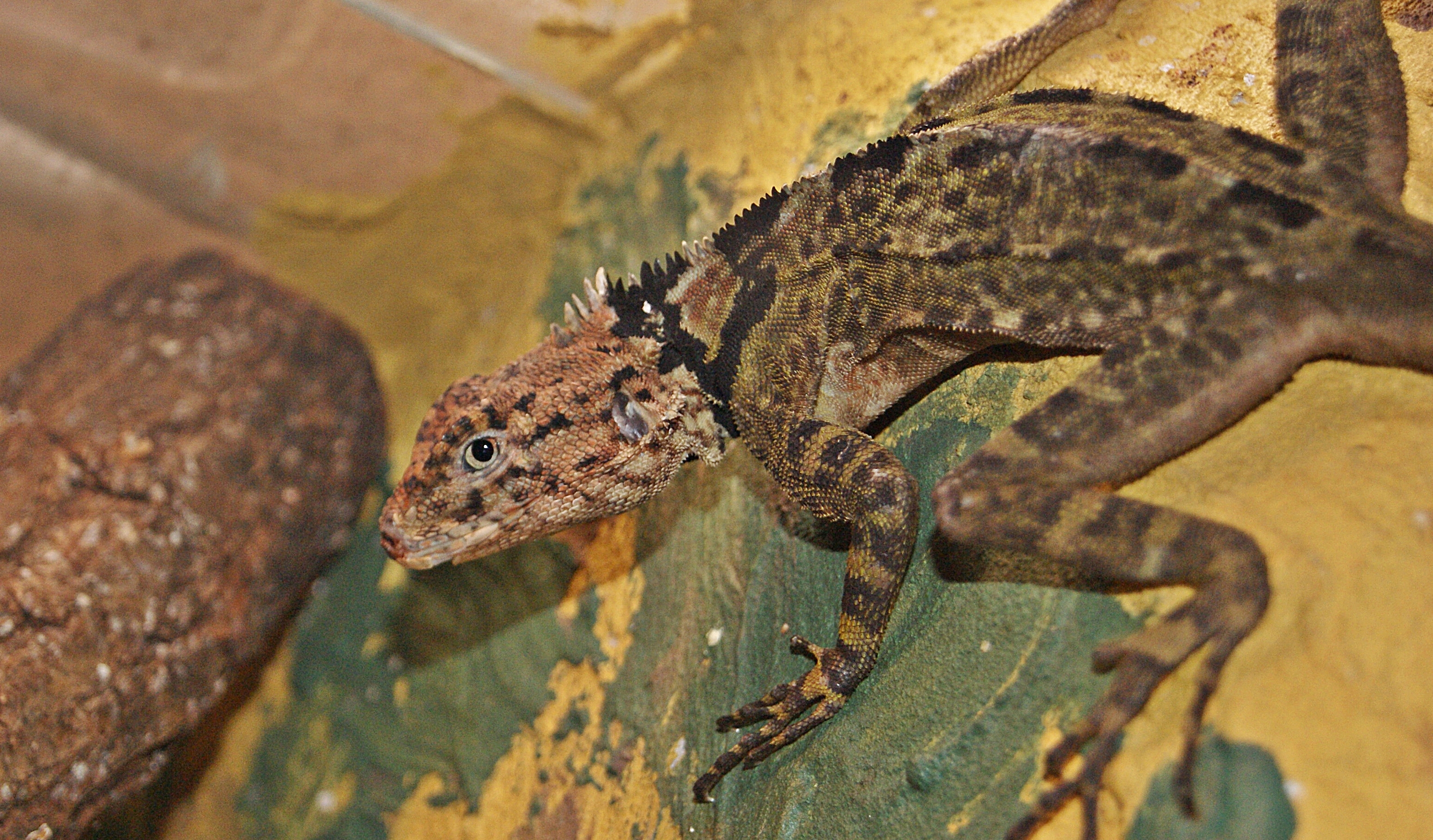 Plica plica at Zooparadies Flade in Betzdorf, Germany.